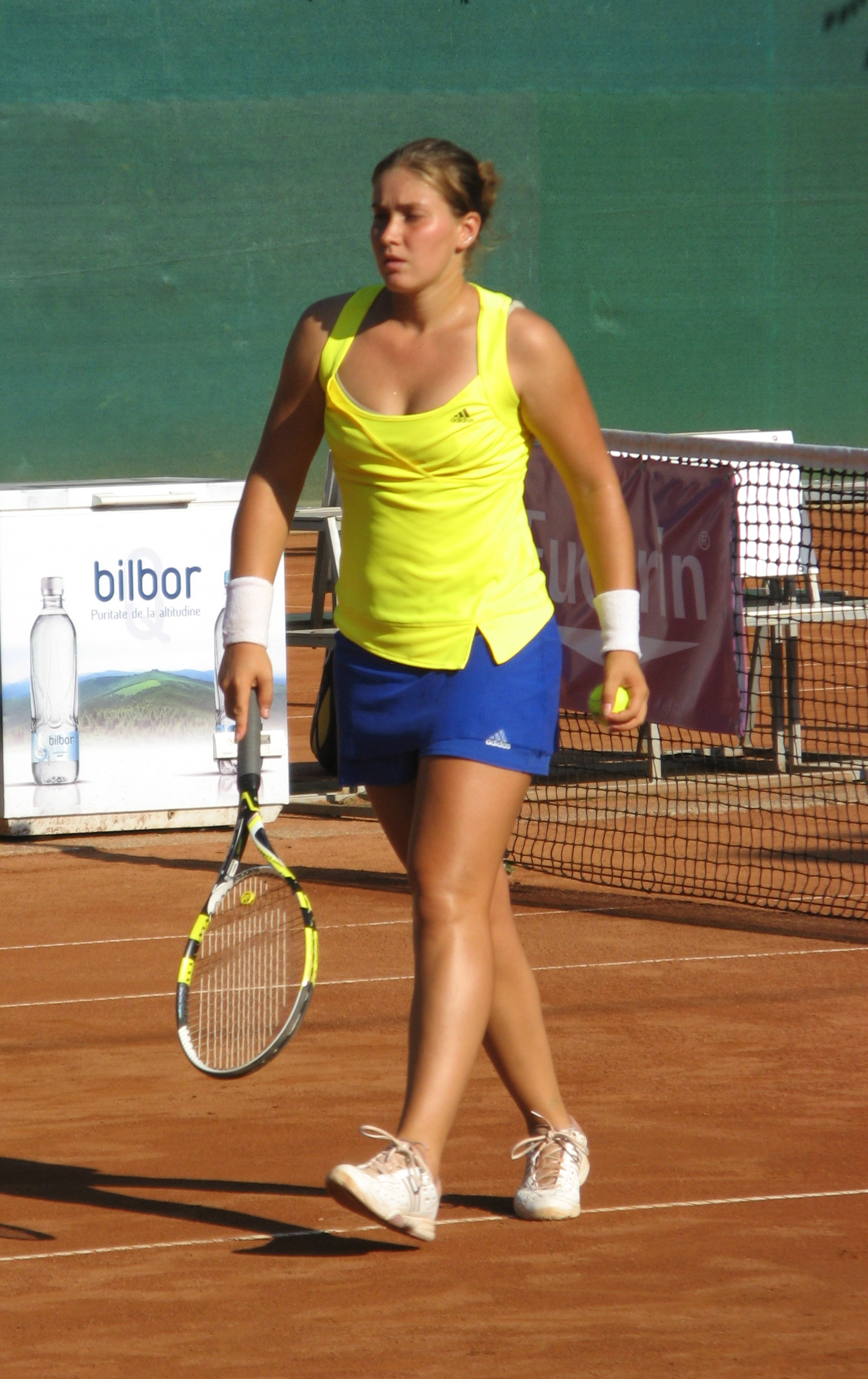 Laura-Ioana Andrei playing doubles in the first round at the 2011 BCR Open Romania Ladies